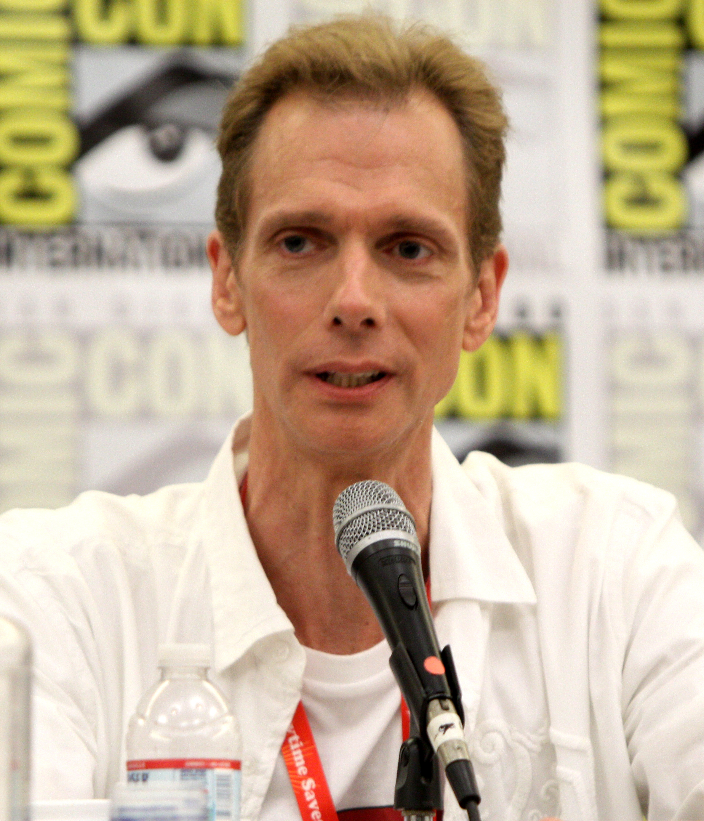 Doug Jones at the 2011 Comic Con in San Diego